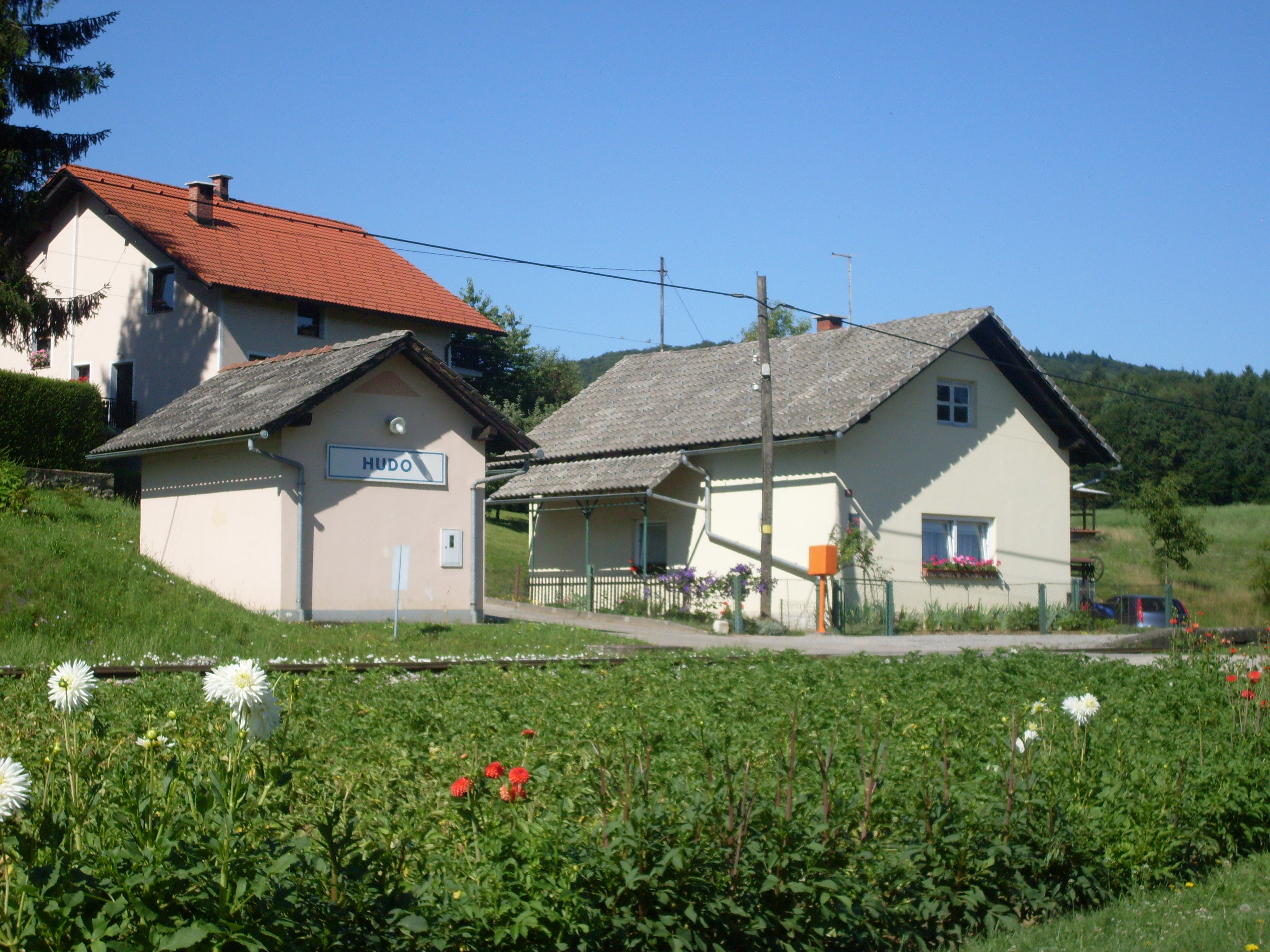 Railway halt HudoSlovenščina: Železniško postajališče Hudo